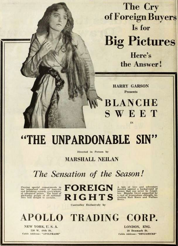 Ad for the American film The Unpardonable Sin (1919) with Blanche Sweet, on page 1218 of the May 24, 1919 Moving Picture World.